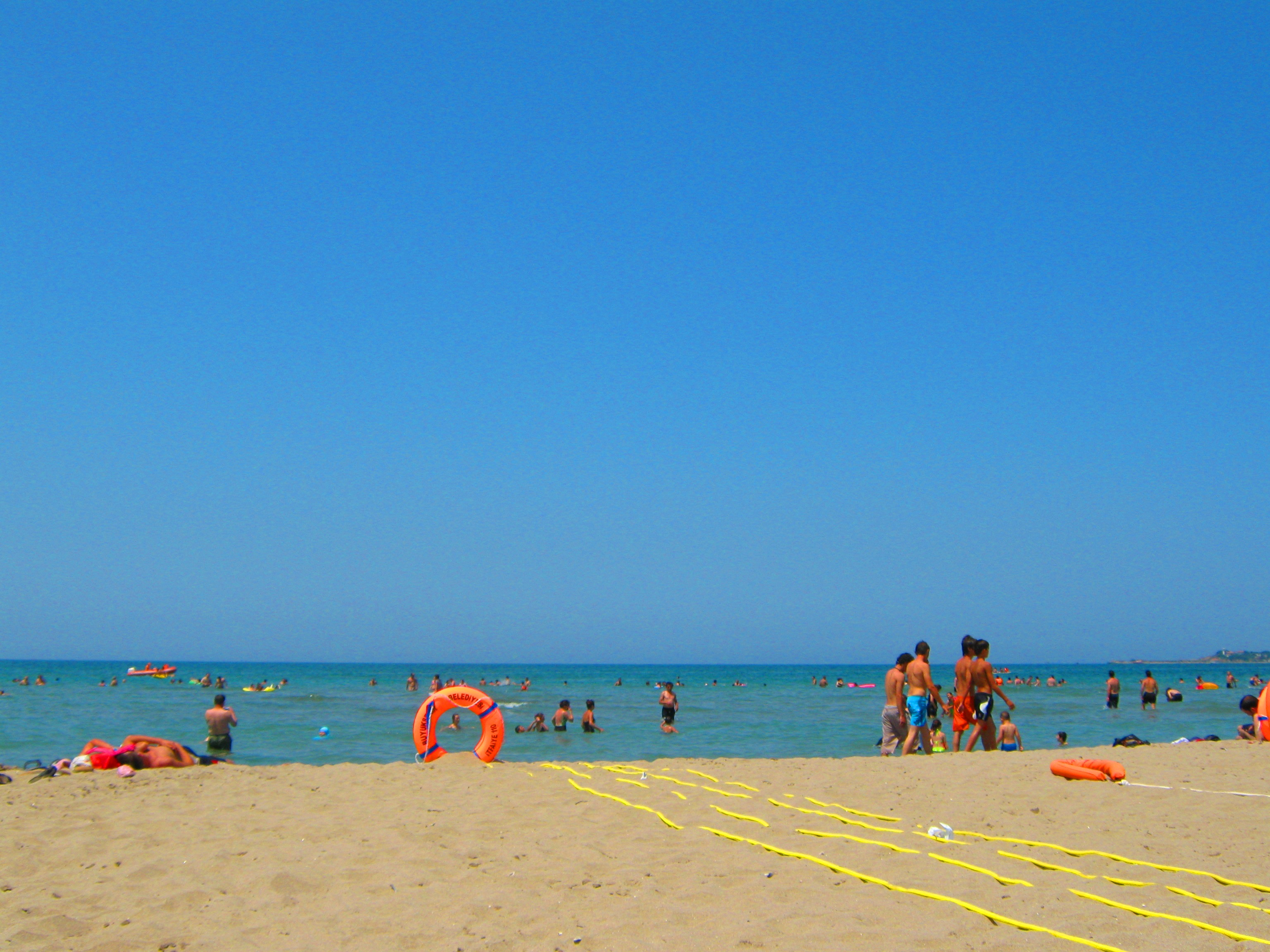 Cebeci Village Beach/Kandıra/Kocaeli -TURKEY